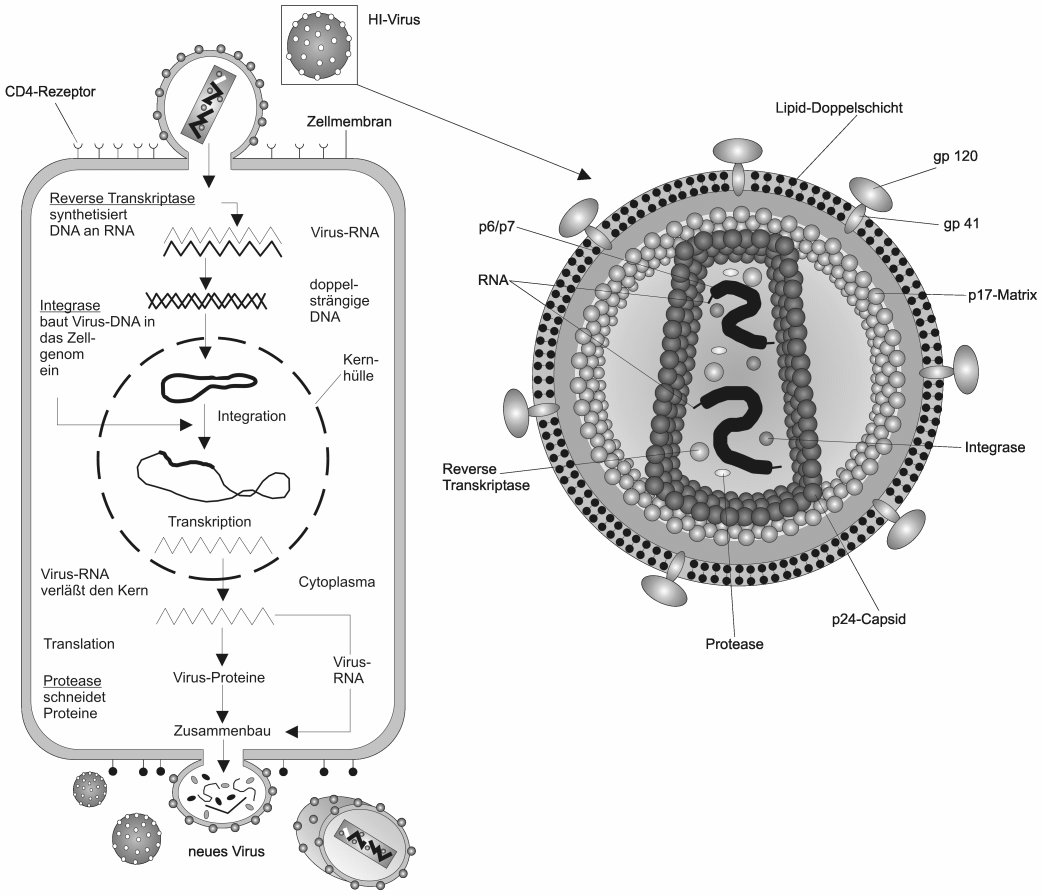 multiplication of HIV